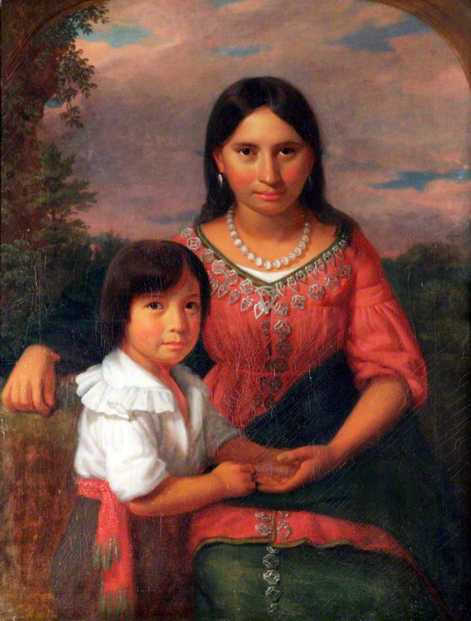 The Sedgeford Hall Portrait. It's a portrait in the American School by an unknown artist circa 1830. It depicts Pe-o-ka, wife of the Seminole chief, Osceola, and their son. Formerly believed to show Pocahontas and her son Thomas Rolfe.[1]